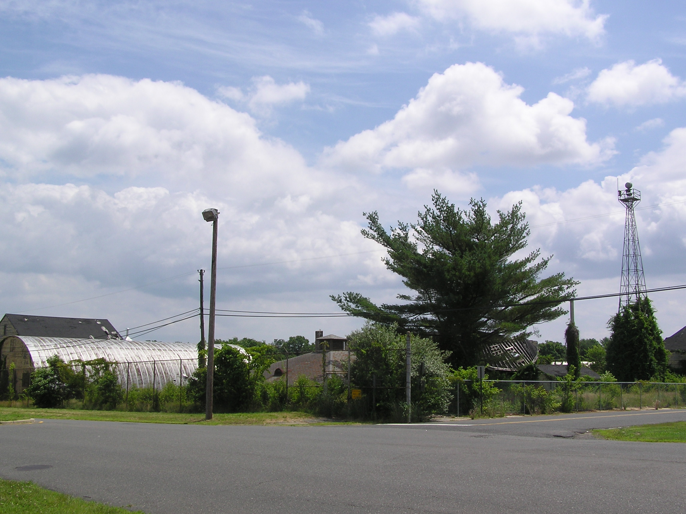 Camp Evans Historic District Buildings overgrown with vegetation on the north side of the Camp Evans Historic District in Wall Township, Monmouth County, New Jersey. For more history on Camp Evans